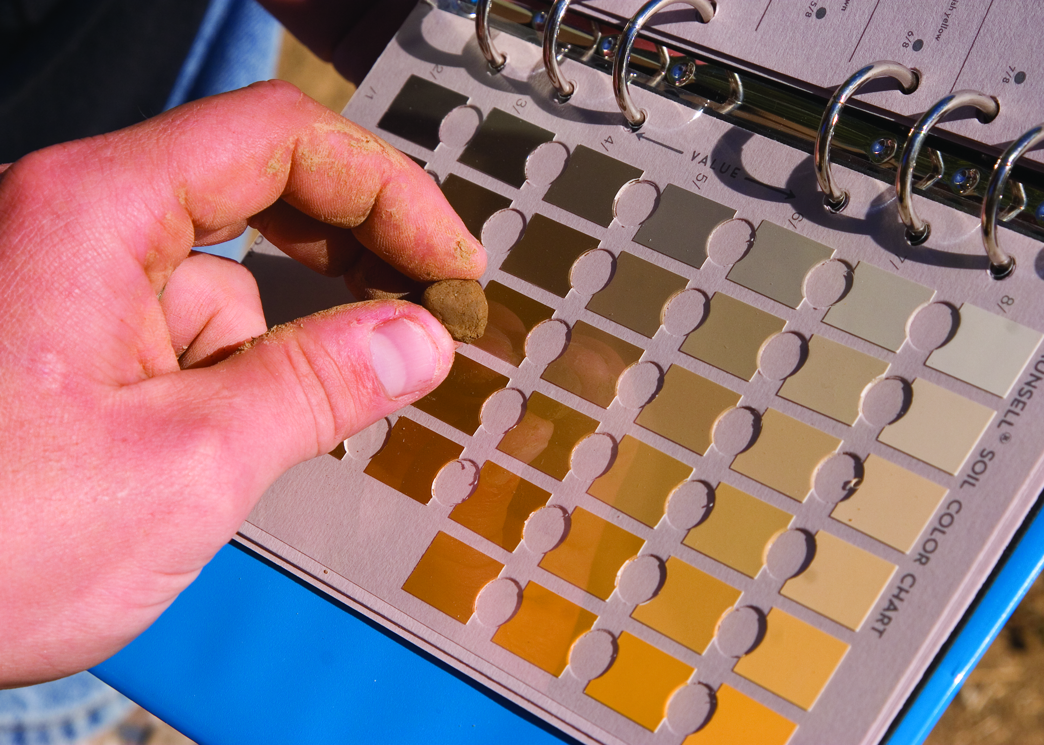 A NRCS Soil Scientist classifying soils in California